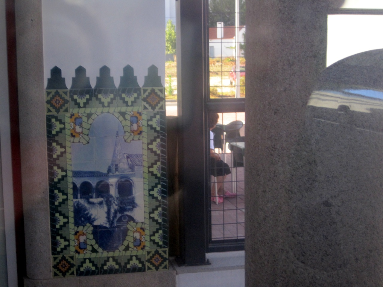 Evora depicted on tiles at train station.